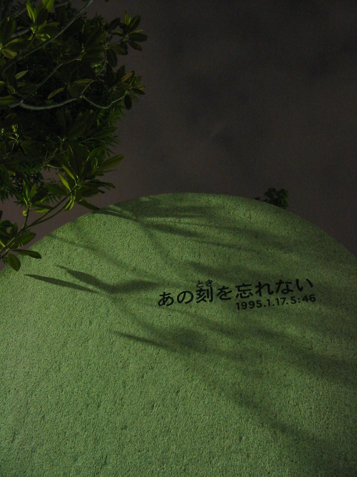 Memorial to those killed in the Great Hanshin Earthquake in Biwa Block, Nada Ward, Kobe city. Text reads "あの刻を忘れない Ano toki wo wasurenai" which roughly translates to "not forget that time" or "We won't forget that time". Followed by the date of the incident.